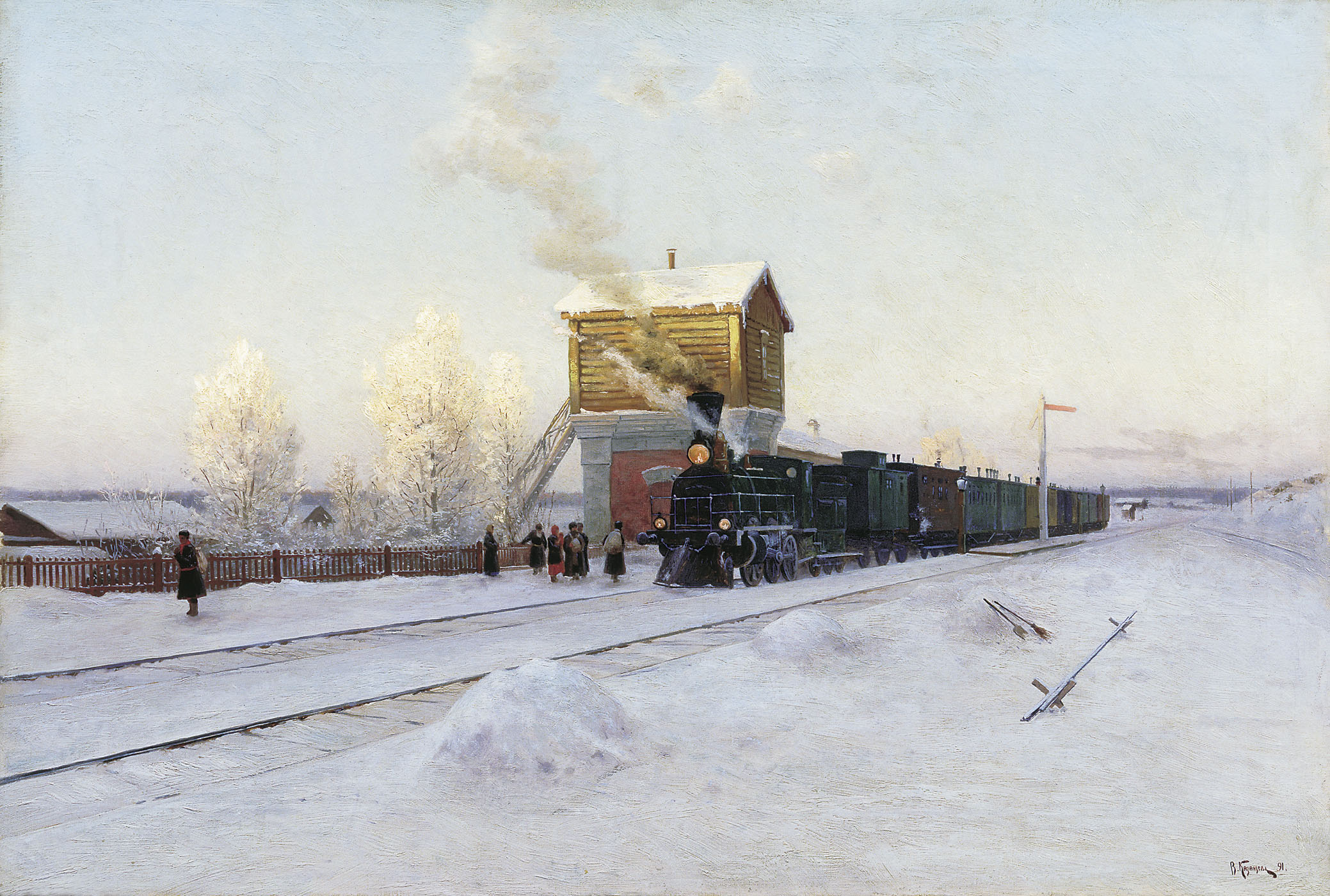 "At the little station". Winter morning in Ural Railway. 1891. Oil on canvas 63x90 cm